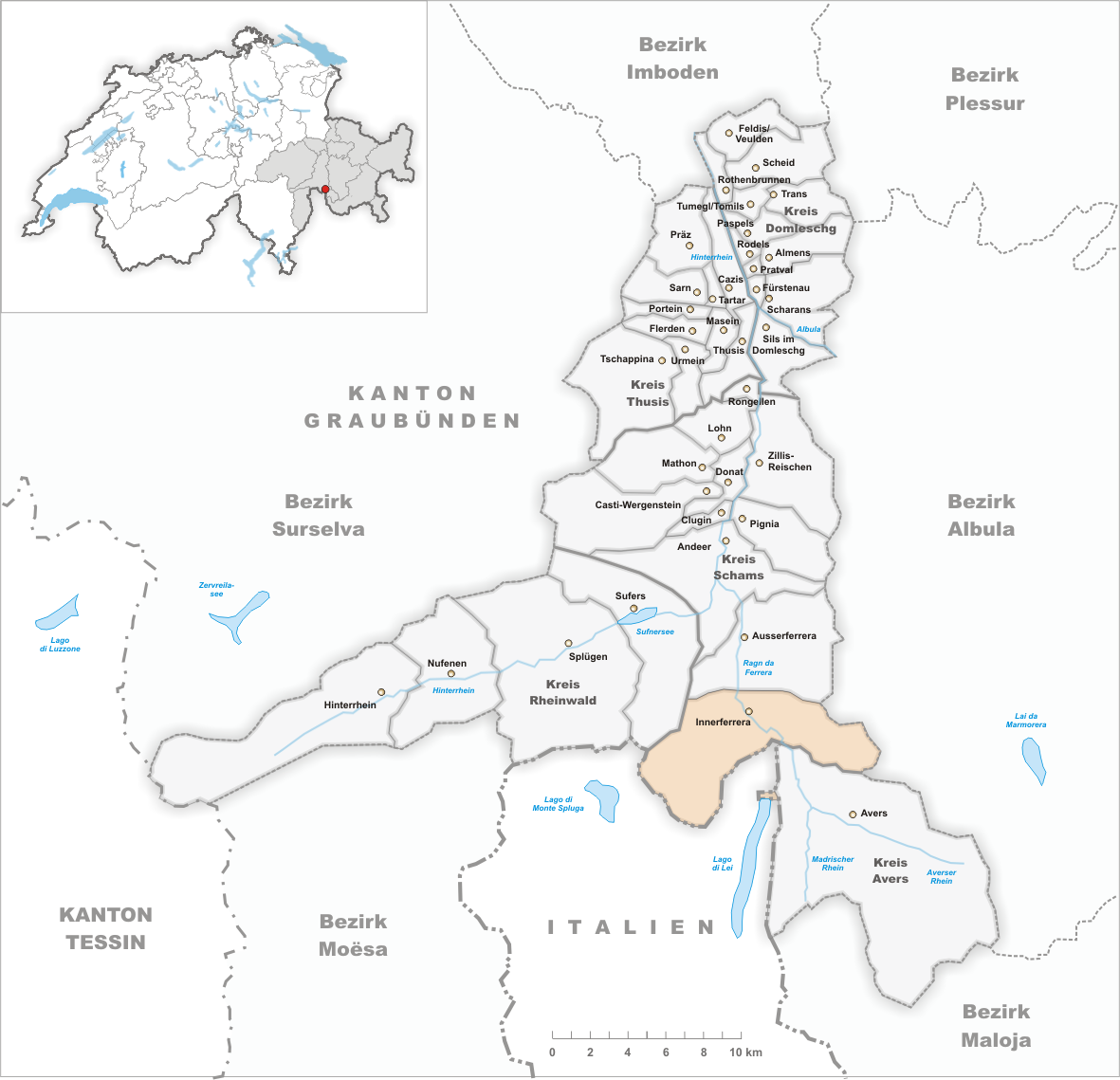 Municipality Innerferrera